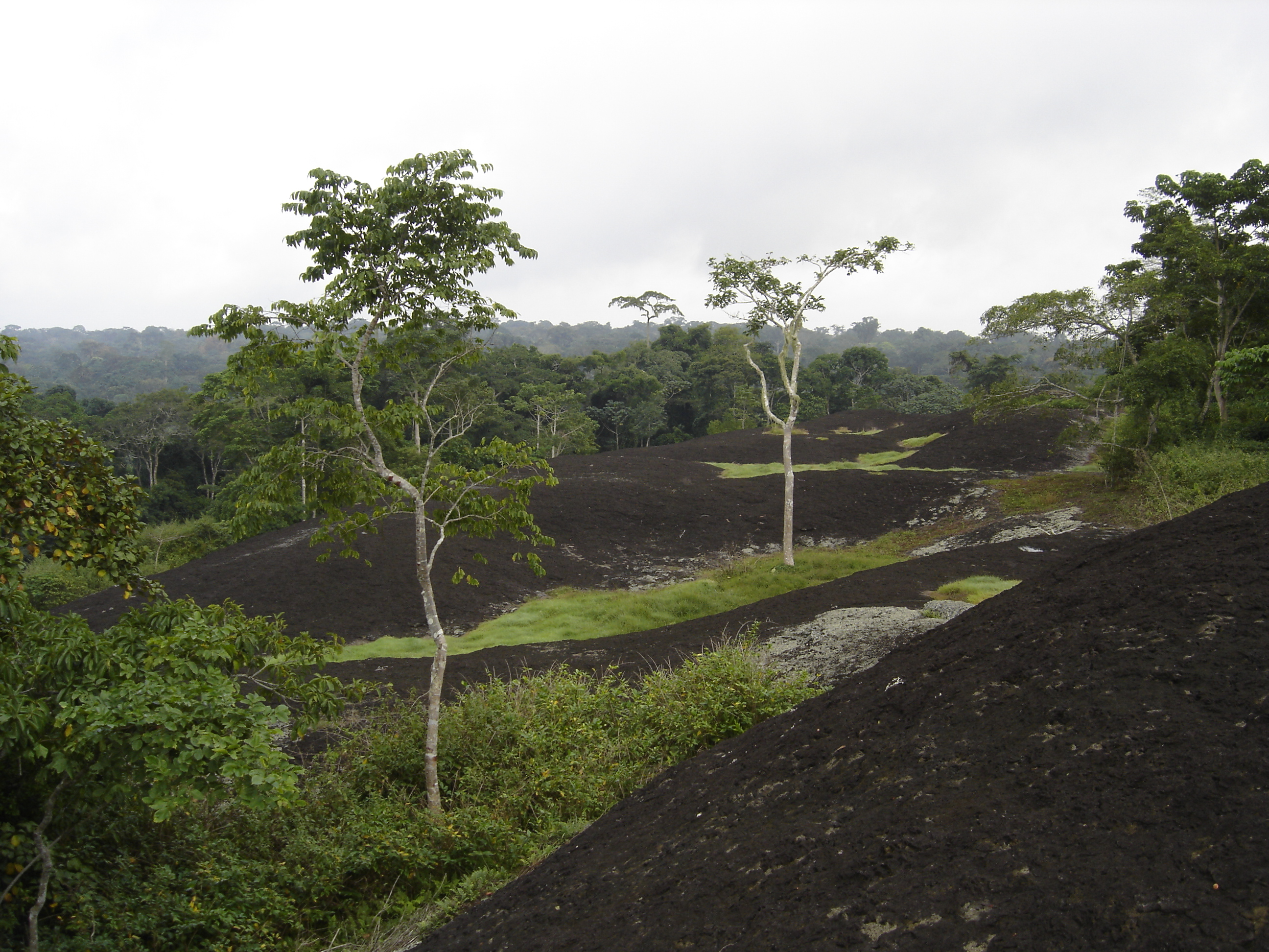 Dja Faunal Reserve (Cameroon)